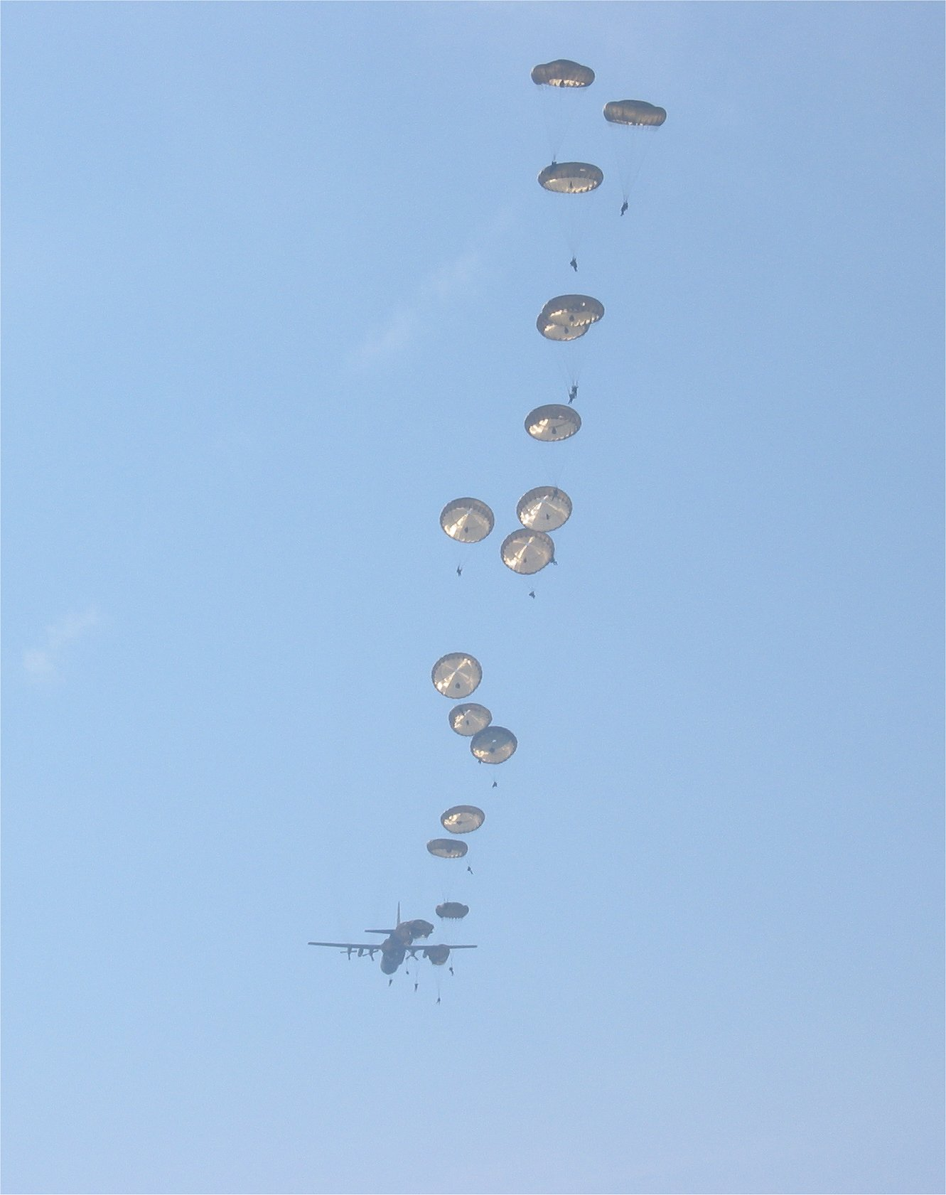 Parachutists dropping out of a Hercules in commemoration of Operation Market Garden.